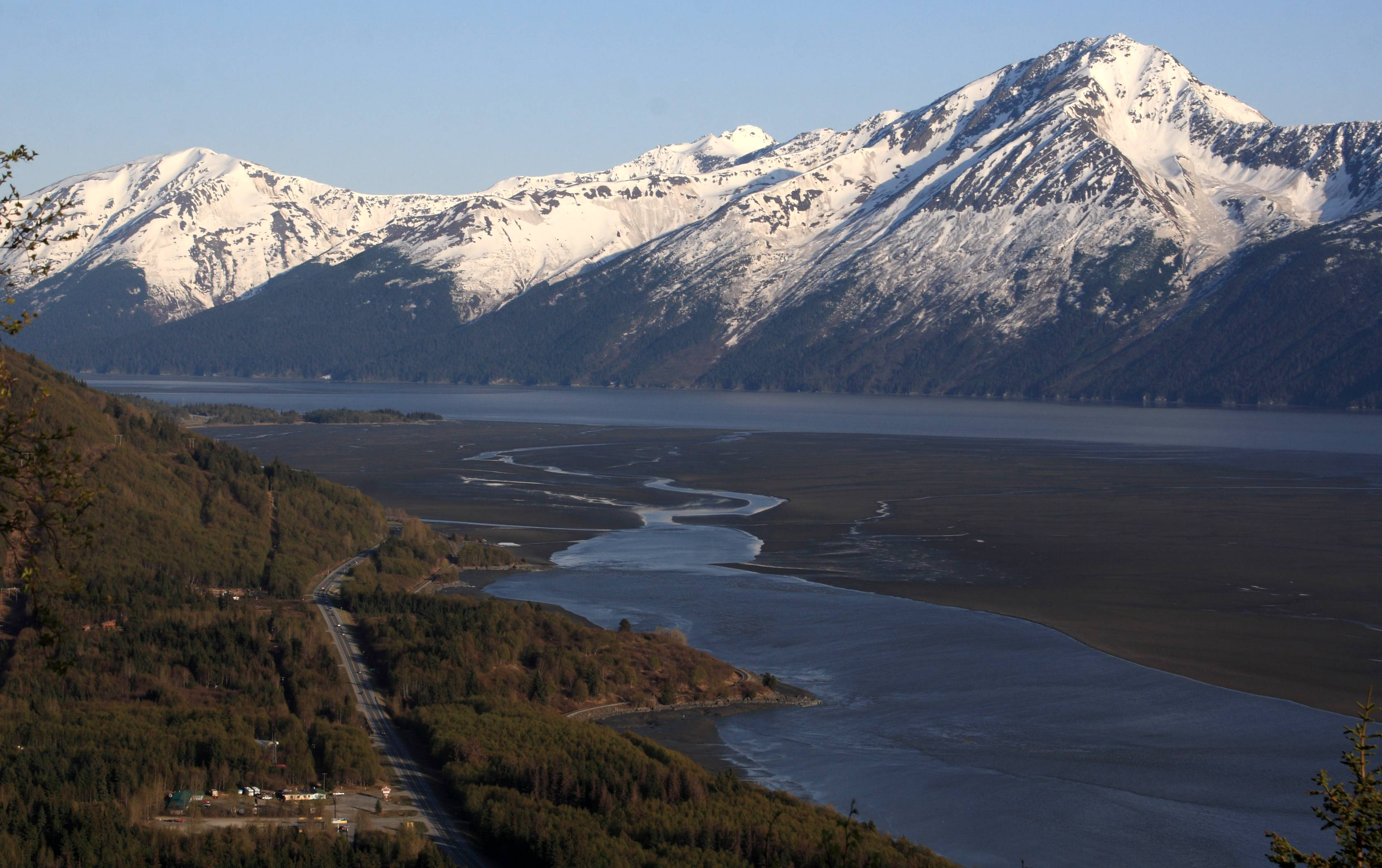 Turnagain Arm, Seward Highway and Kenai Mountains, Alaska, seen from Chugach State Park